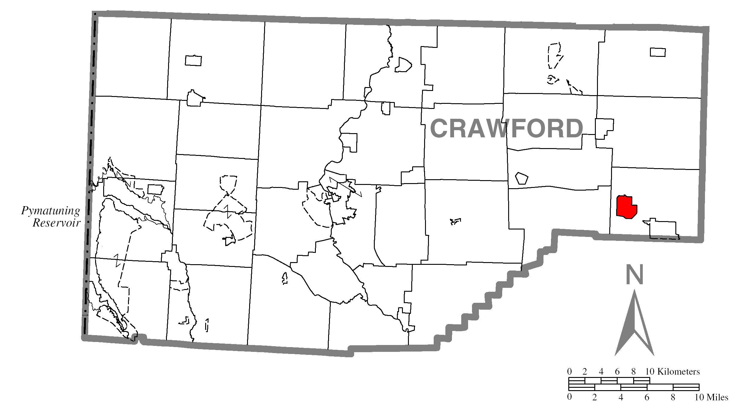 Map of Crawford County higlighting Hydetown.